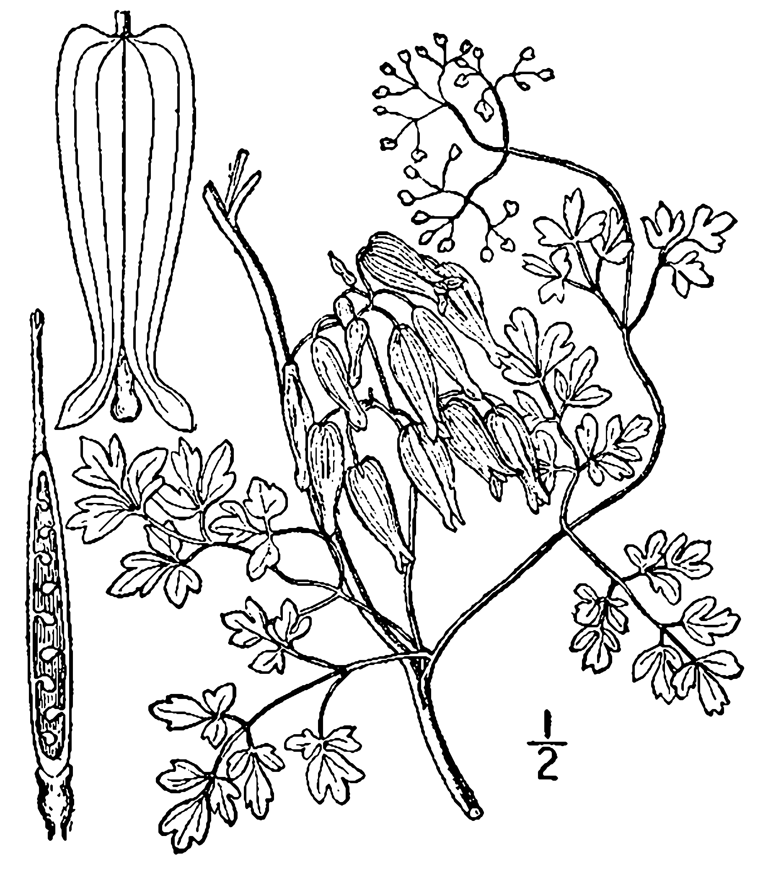 Allegheny Vine. Drawing.